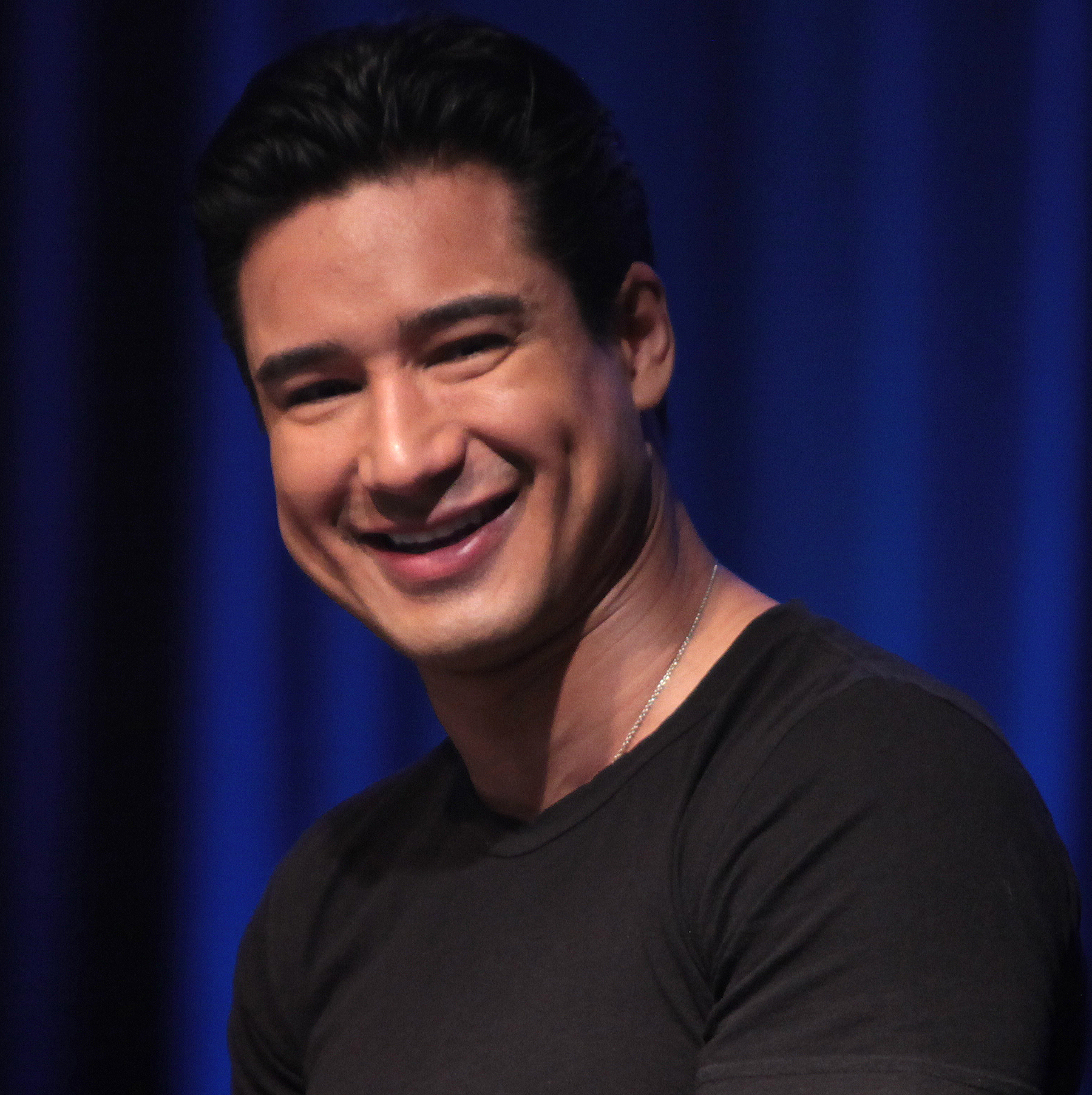 Mario Lopez speaking at an event in Phoenix, Arizona.